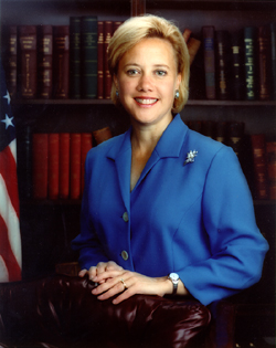 Mary Landrieu